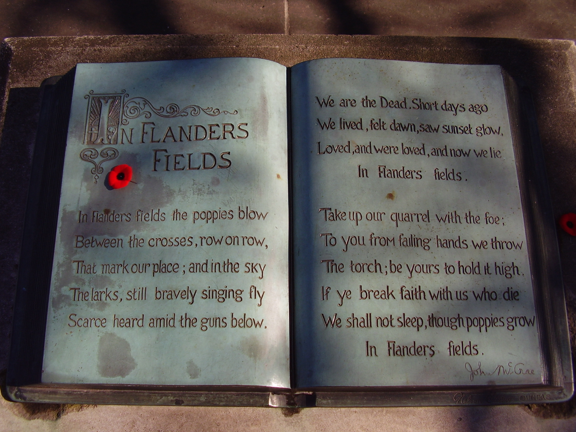 John McCrae Memorial "book" close-up. McCrae House, Guelph, Ontario, Canada